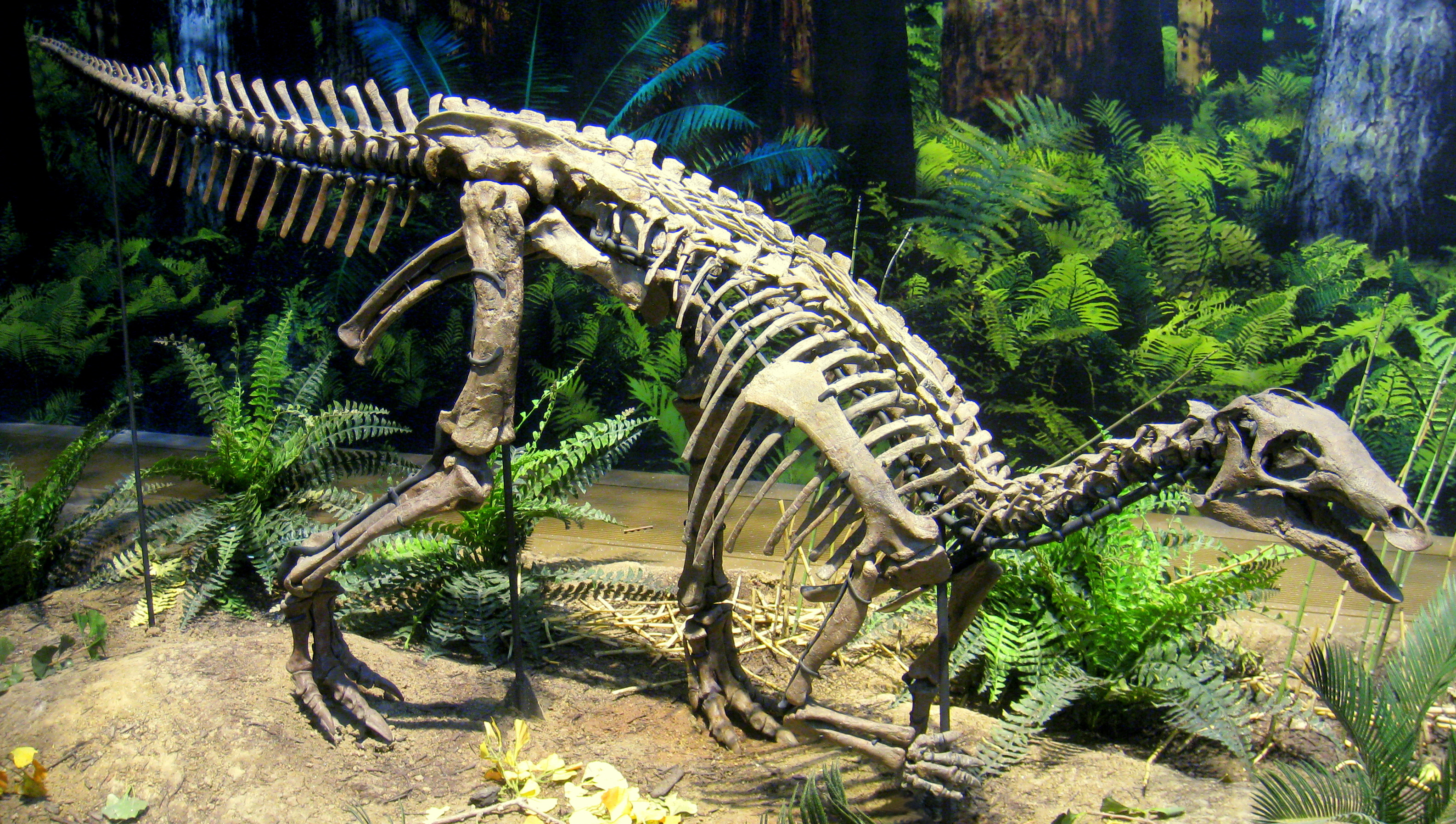 Camptosaurus aphanoecetes, Carnegie Museum of Natural History, Pittsburgh, Pennsylvania, USA.